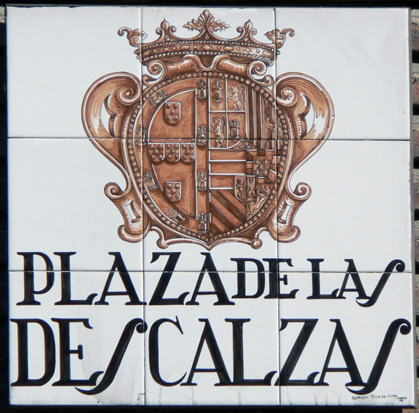 Sign of Plaza de las Descalzas (square, Centro district) in Madrid (Spain).